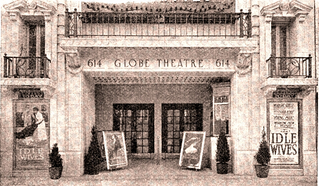 The Globe Theater, Canal Street, New Orleans. Advertisement placards announces that the current film is Idle Wives (1916).